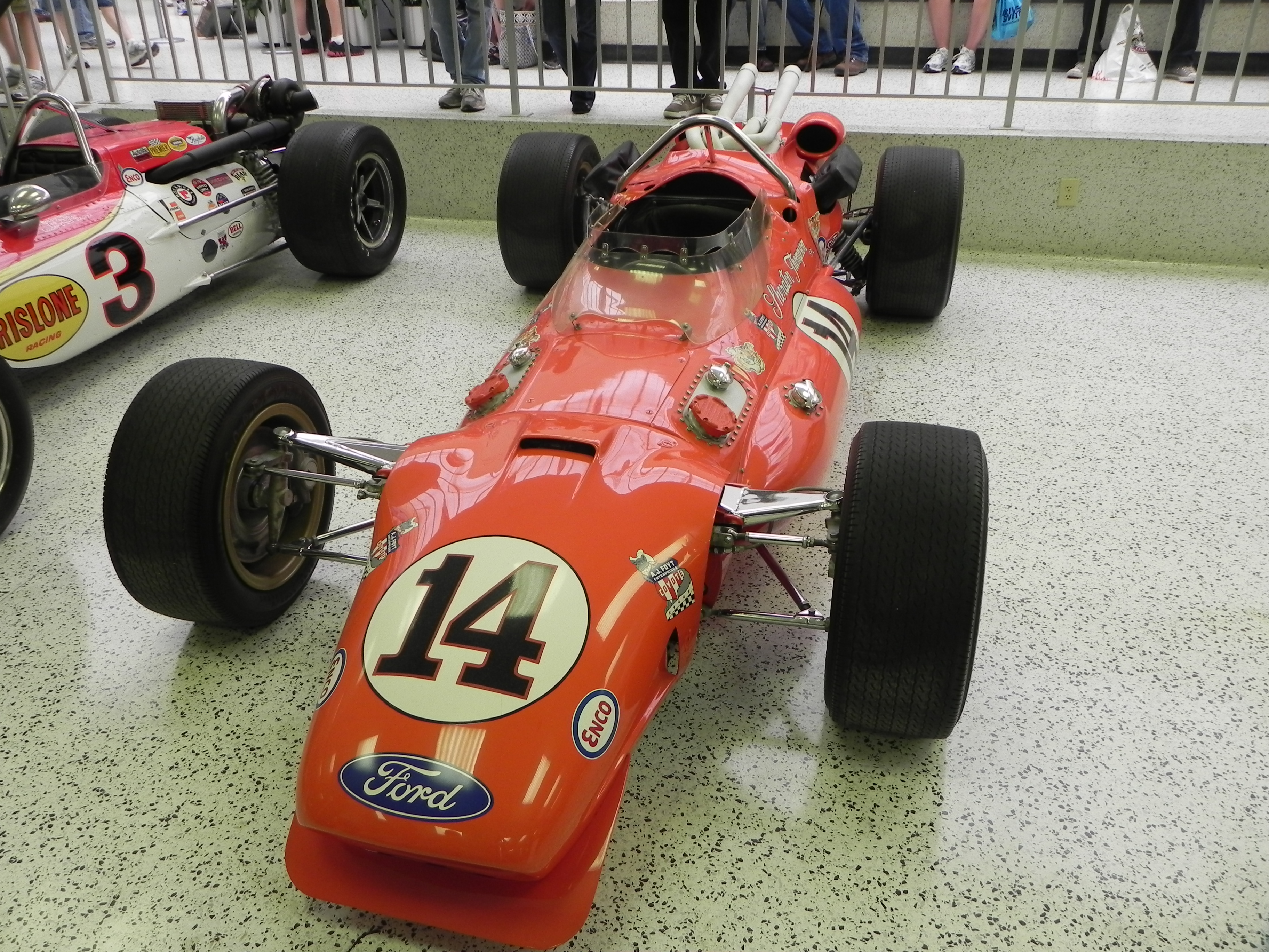 Image of the winning car of the 1967 Indianapolis 500 (A.J. Foyt). Photo was taken at the Indianapolis Motor Speedway Hall of Fame Museum, during the month of May 2011, at the 100th Anniversary "Ultimate Indianapolis 500 Winning Car Collection."